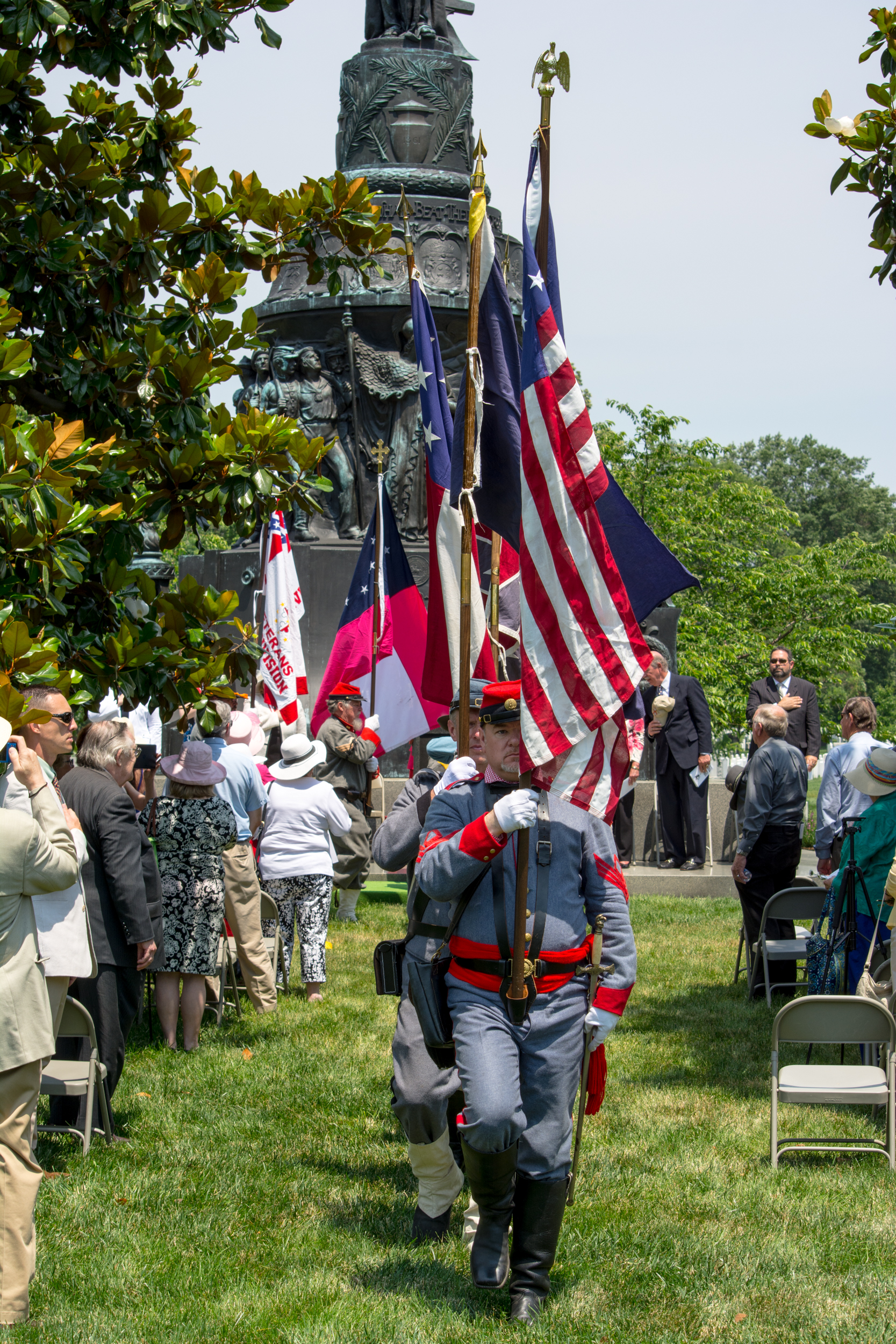 The color guard retires the colors during the Confederate Memorial Day exercises at the Confederate Memorial in Arlington National Cemetery in Arlington County, Virginia, in the United States on June 8, 2014. The color guard was provided by the Maryland Division, Sons of Confederate Veterans (SCV).